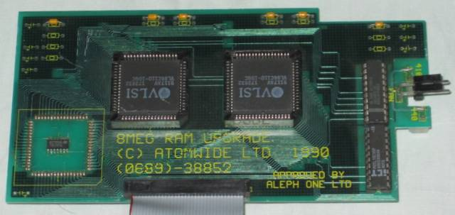 Atomwide 8Meg RAM Upgrade MEMC Board (top).The Atomwide 8Meg RAM Upgrade for A440, R140 & A410/1 consists of 2 boards, the first contains 2 MEMC1a ICs and plugs into the MEMC socket on the motherboard, the second contains the RAM and occupied a podule slot. The RAM board contains 8 x HM514400Z (1M x 4bits) giving 4 MB. The remaining 4 MB are on the motherboard.